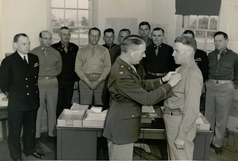 Commander of the Civil Affairs Staging Area - Colonel Hardy Cross Dillard - pins the bronze star on Lt. Colonel Presley W. Melton. During the ceremony, Colonel Dillard remarked, " In the European Theater Lieutenant Colonel Melton (then Major) was personally responsible for the formation and coordination of the G-5 plan for the use of Civil affairs personnel in the base section of the Communications Zone from May to October of last year. The citation reads that his performance of this outstanding service has been a major contribution to the war effort, and reflects great credit upon himself and the armed forces of the United States."